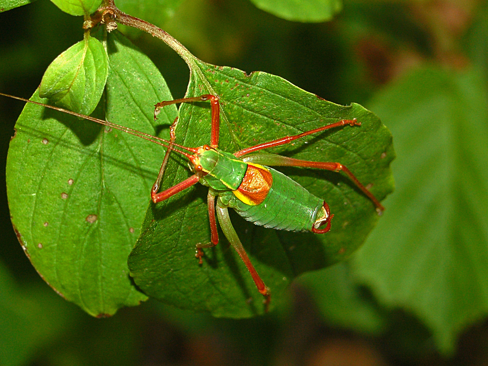 "Barbitistes cf. obtusus", male. Val Noci, Genoa, Italy